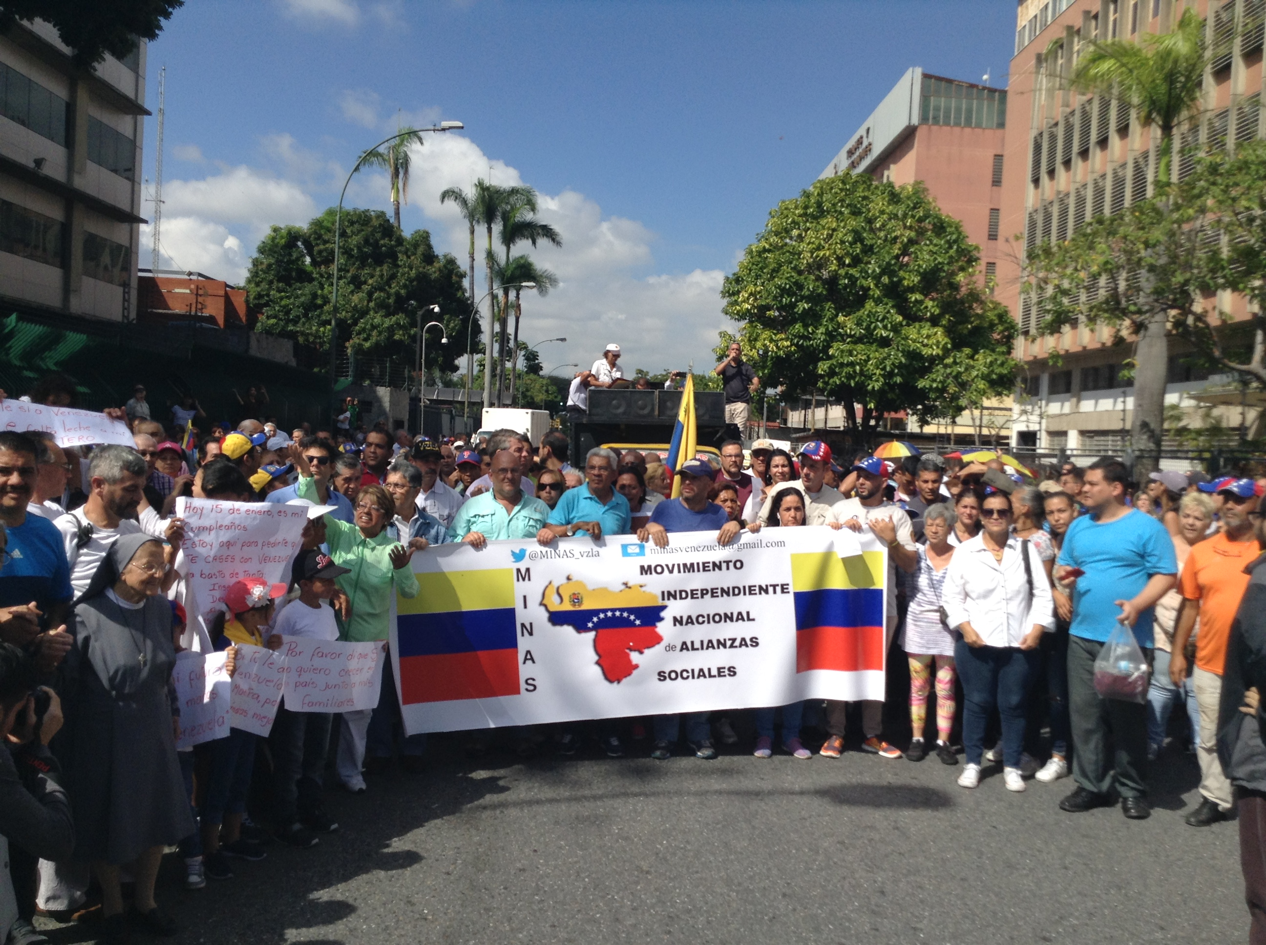 Marcha el 15 de enero de 2018 a la sede de empresas Polar solicitando la candidatura de Lorenzo Mendoza en las elecciones presidenciales.